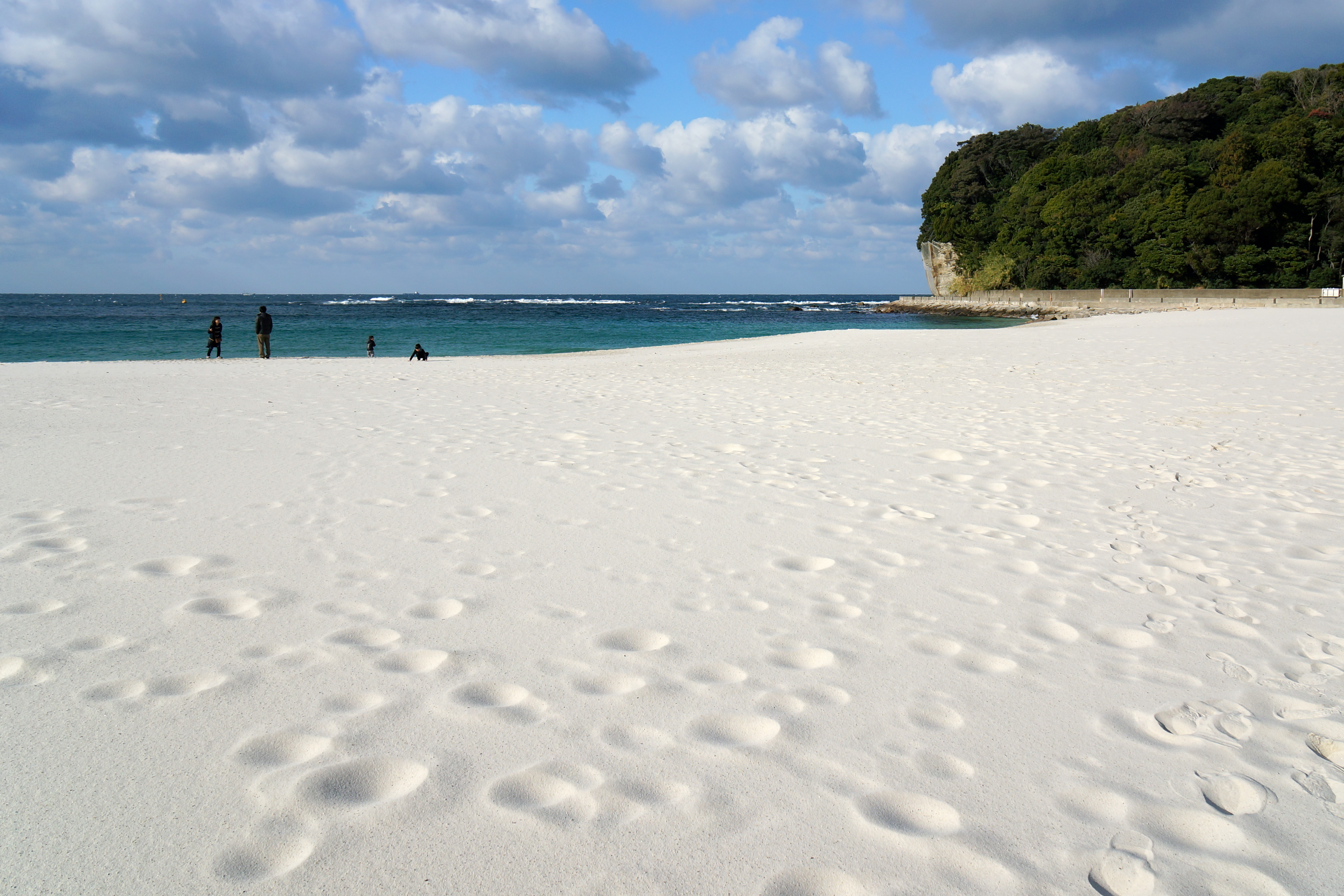 Shirarahama Beach in Shirahama, Wakayama prefecture, Japan.